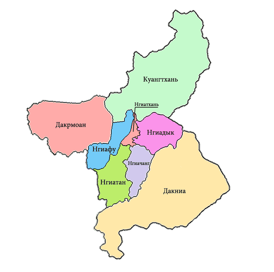 Districts of Gia Nghia